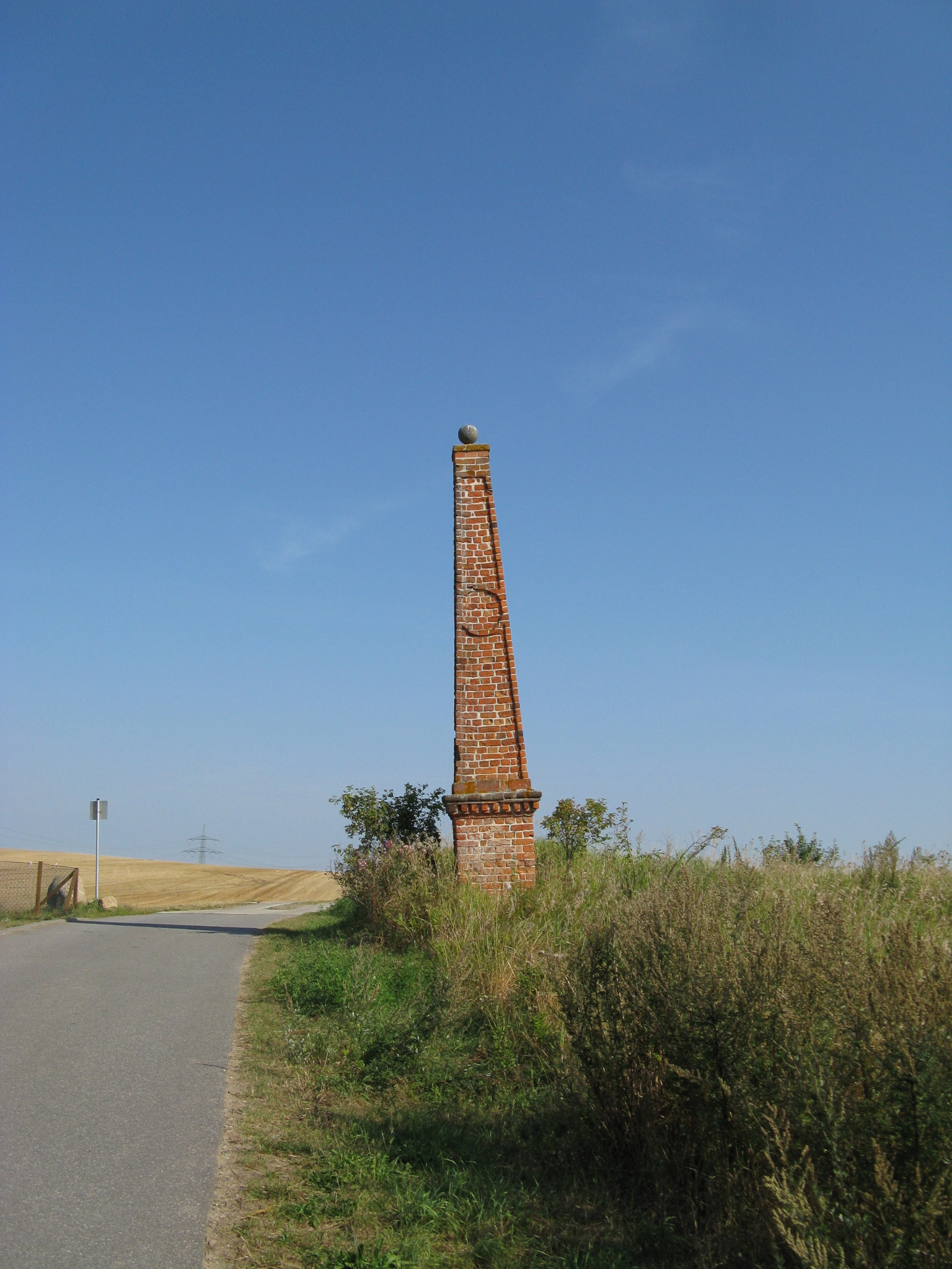 Court obelisk in Karow, disctrict Güstrow, Mecklenburg-Vorpommern, Germany